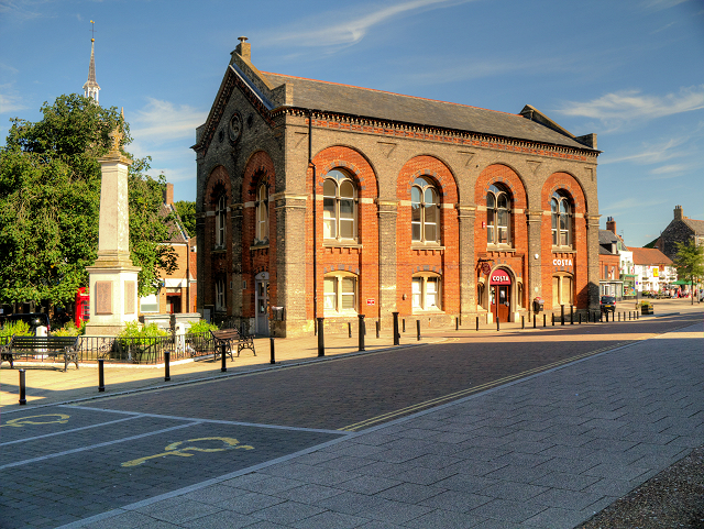 War Memorial and Former Corn Exchange, Swaffham